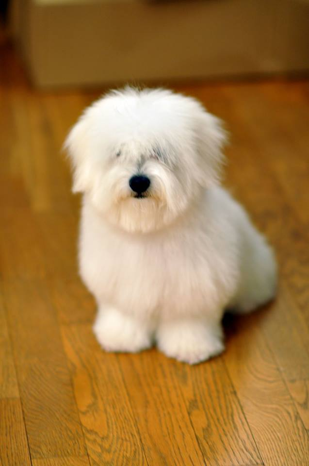 Coton de Tulear puppy at 6 months